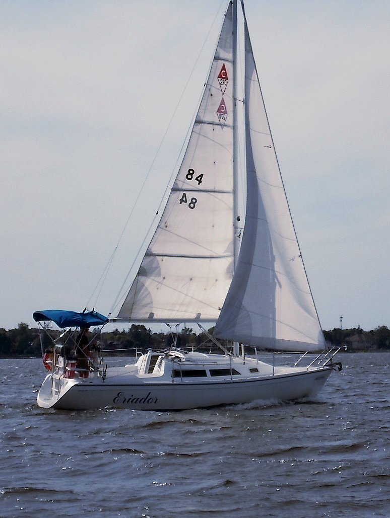 Catalina 270 sailboat Eriador on Lac Deschênes, part of the Ottawa River, Ottawa, Ontario, Canada